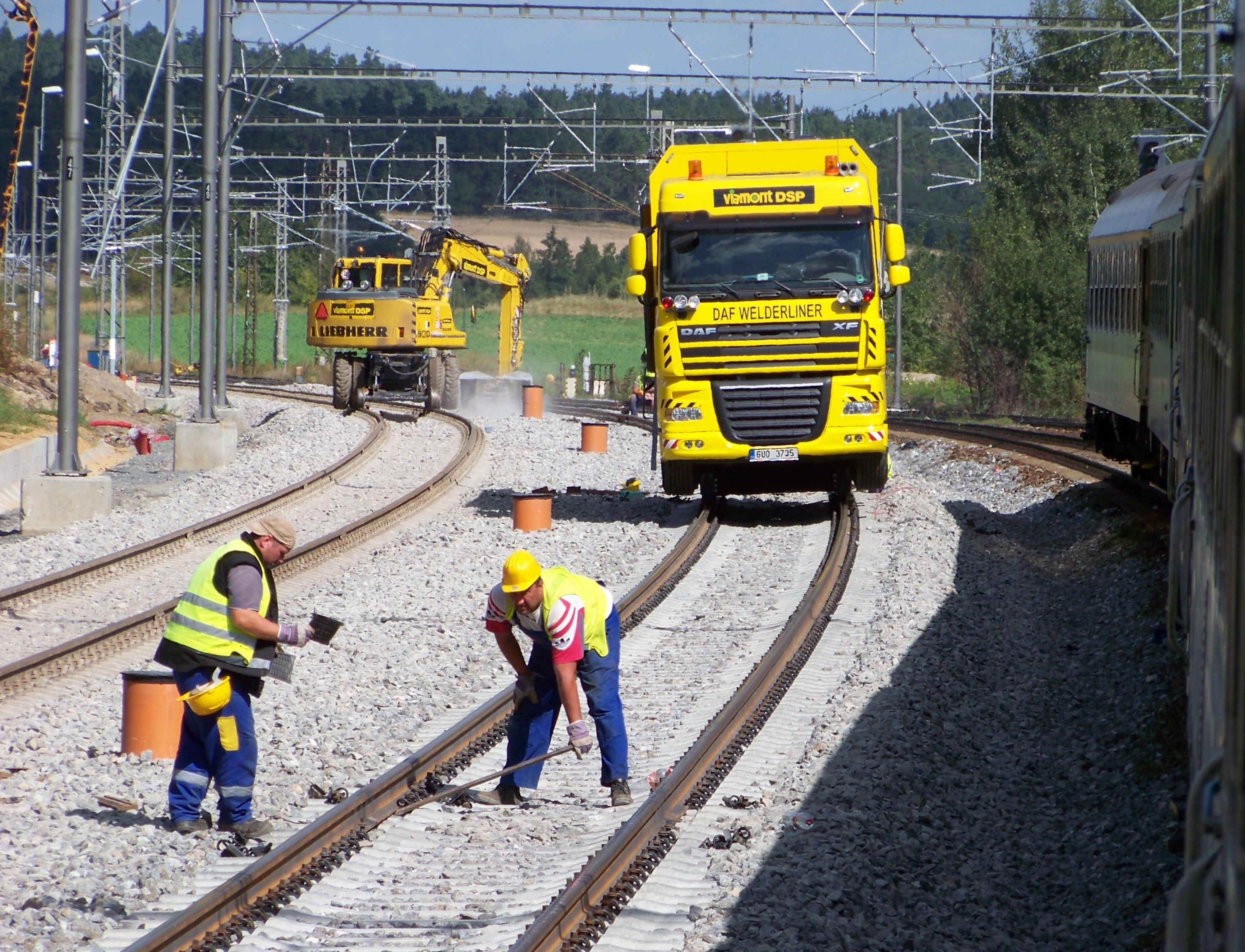 Olbramovice, Benešov District, Central Bohemian Region, the Czech Republic. Reconstruction of the rail track. Road-rail DAF XF Welderliner.